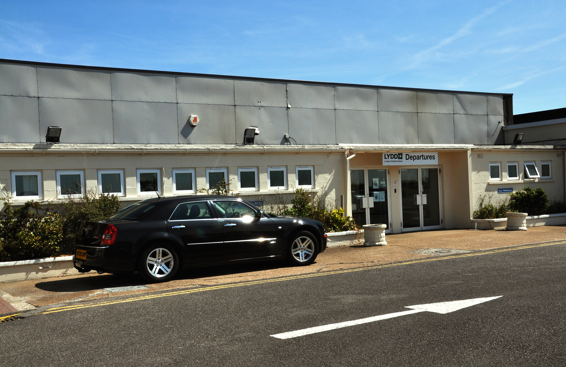 Lydd Airport ( London-Ashford )